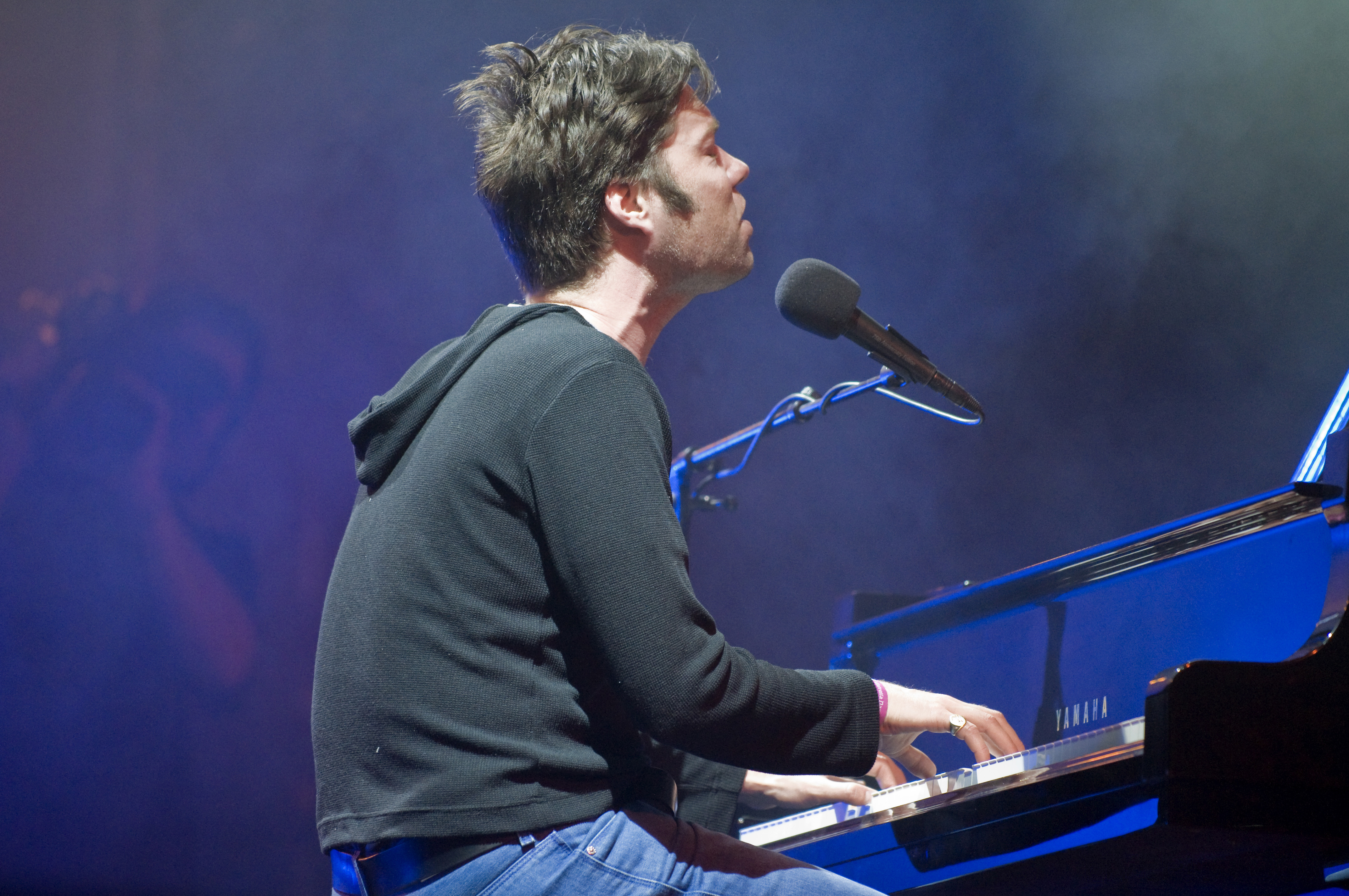 Rufus Wainwright